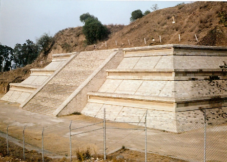 Great Pyramid of Cholula, Puebla, Mexico